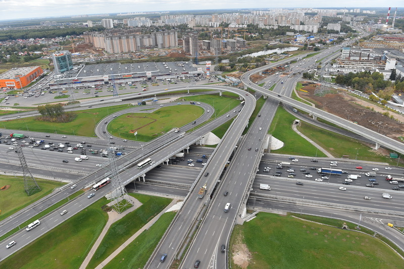 Interchange of MKAD and Borovskoe shosse